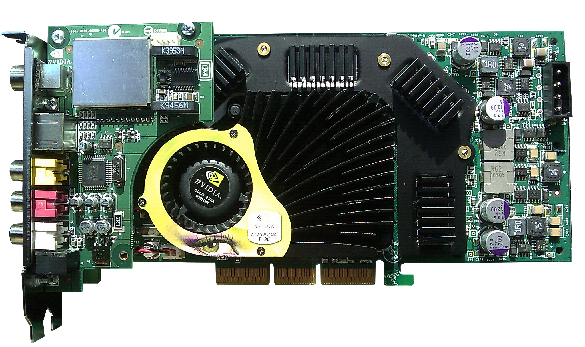 NVIDIA Personal Cinema GeForce FX 5900 Ultra Graphic card